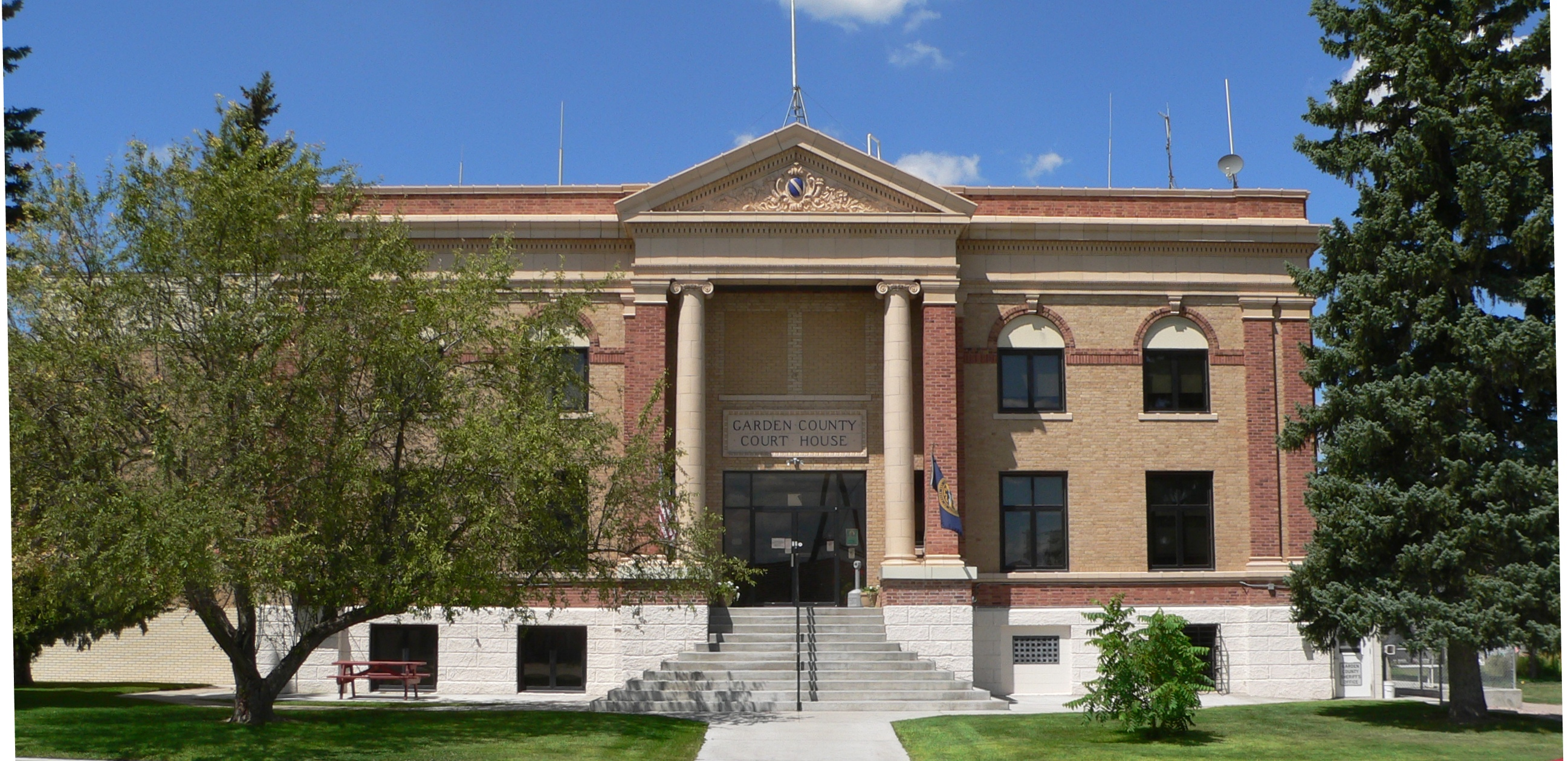 Garden County Courthouse in Oshkosh, Nebraska; seen from the south. The Classical Revival building was constructed in 1922. It is listed in the National Register of Historic Places.